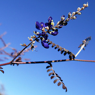 Marina parryi Joshua Tree National Park, California, USA